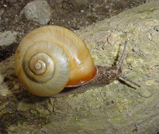 Euhadra senckenbergiana aomoriensis from Tamayama